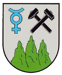 Coat of arms of Stahlberg